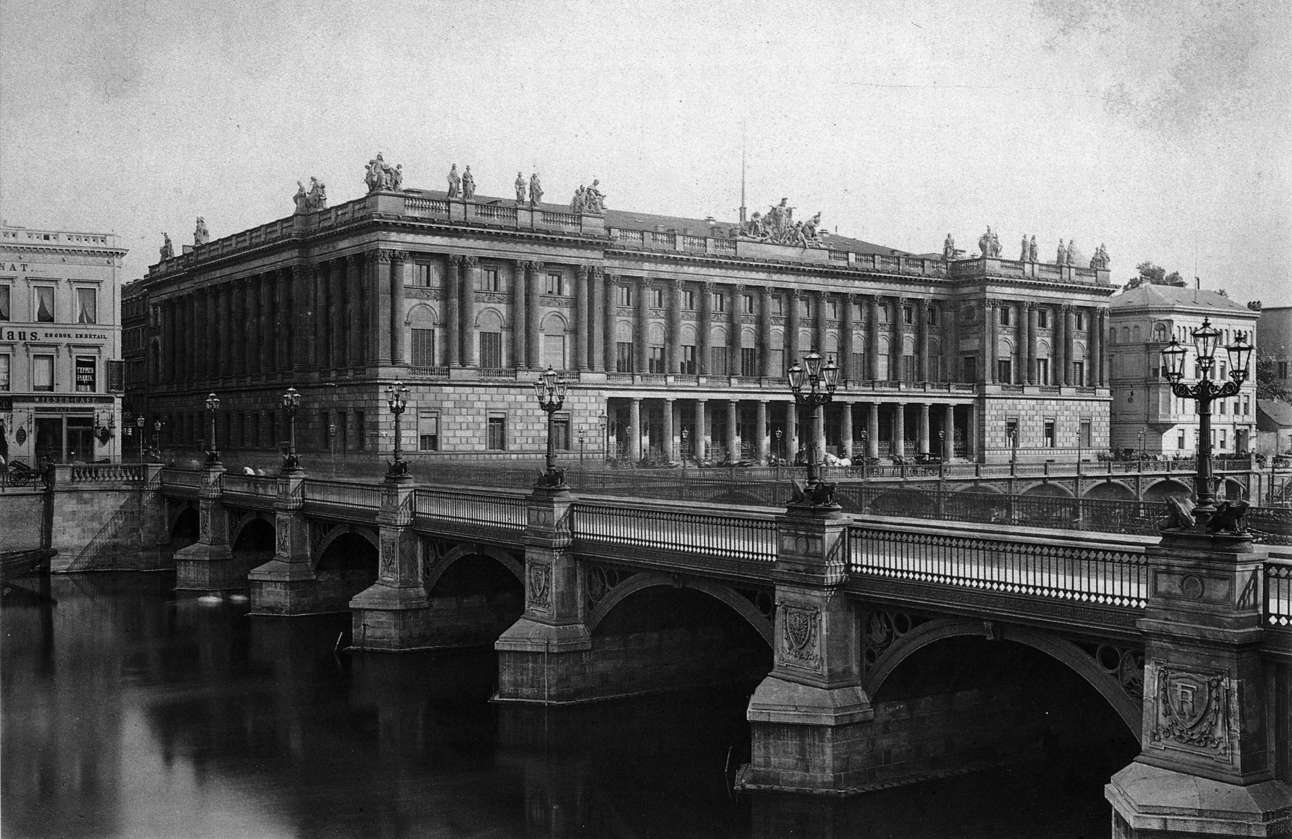 The Berlin Stock Exchange at Friedrichsbrücke in Old Berlin. The building was completely destroyed in 1945.